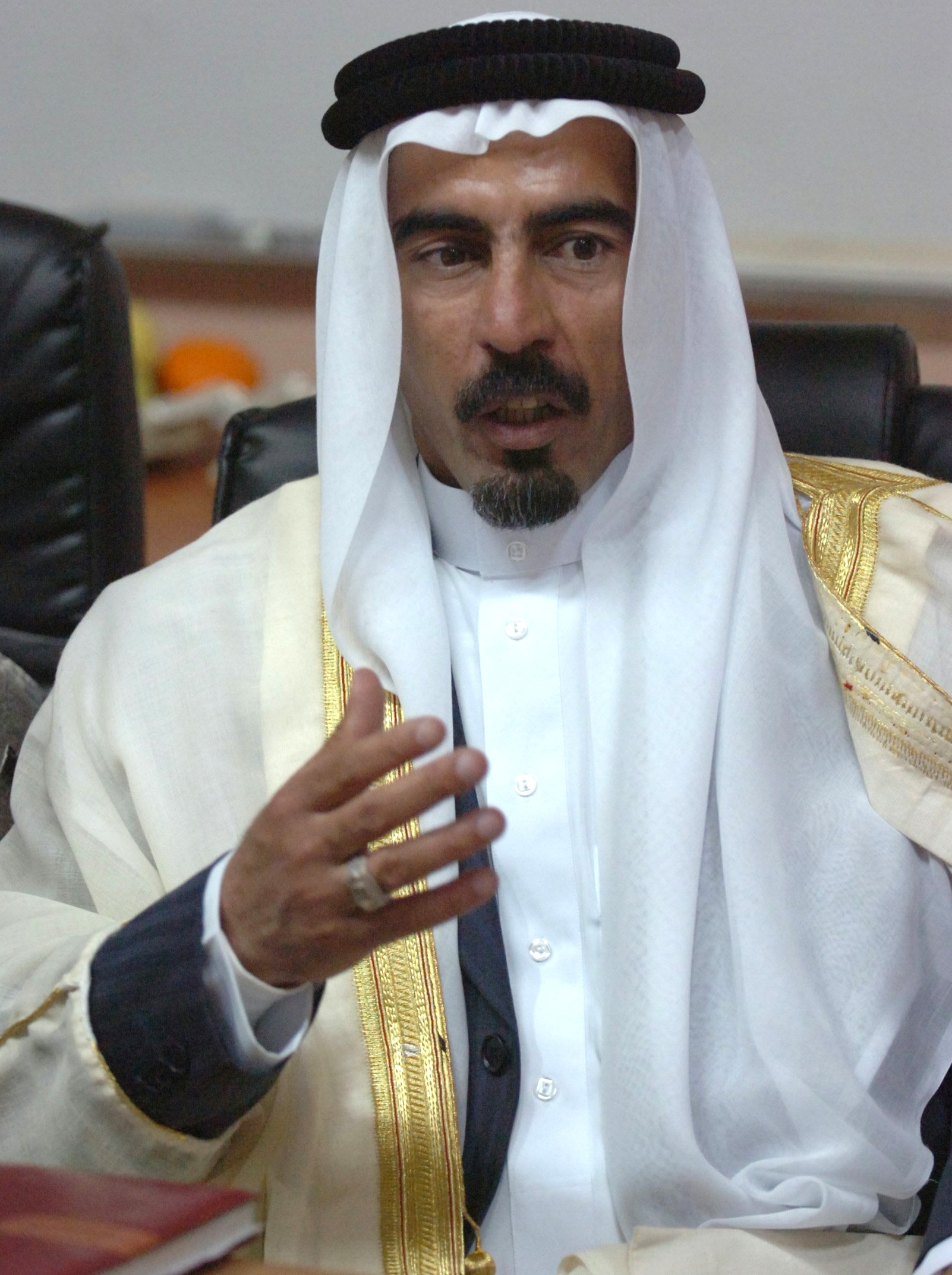 Original Caption: "Sheikh Abdul Sittar speaks with Senator John McCain, R-Arizona, and Lieutenant. General Ray Odierno, commander of Multi-National Corps - Iraq at Camp Ramadi, April 2. Sheikh Sittar helped spark the Anbar Awakening Movement, a widespread rejection of al Qaeda by leaders of the province."